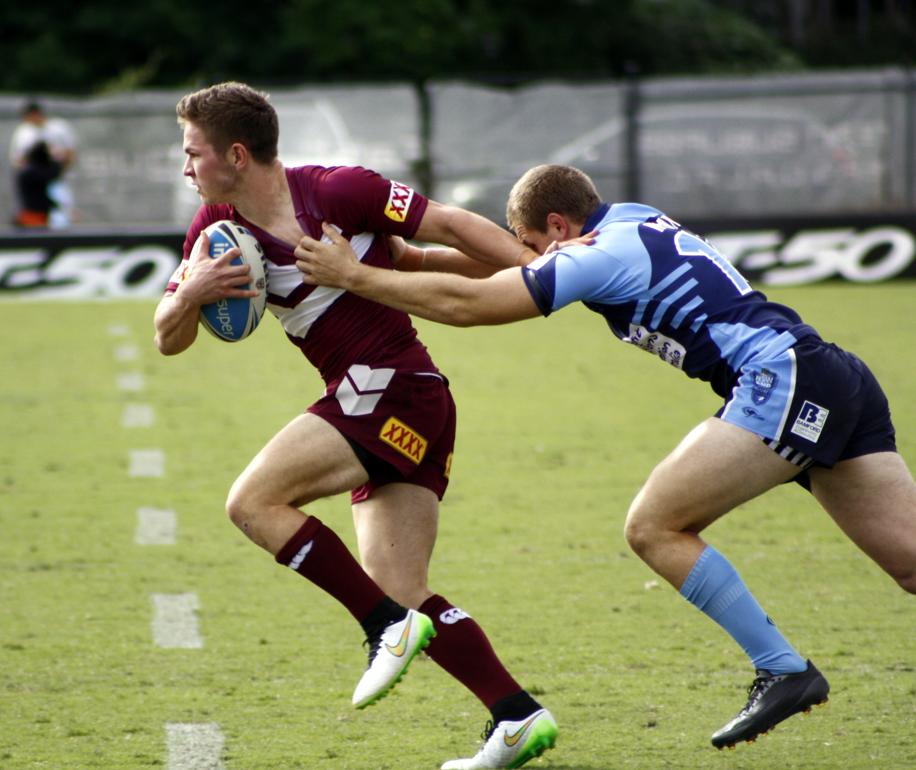 Queensland residents versus New South Wales at Langlands Park on 3 May 2015